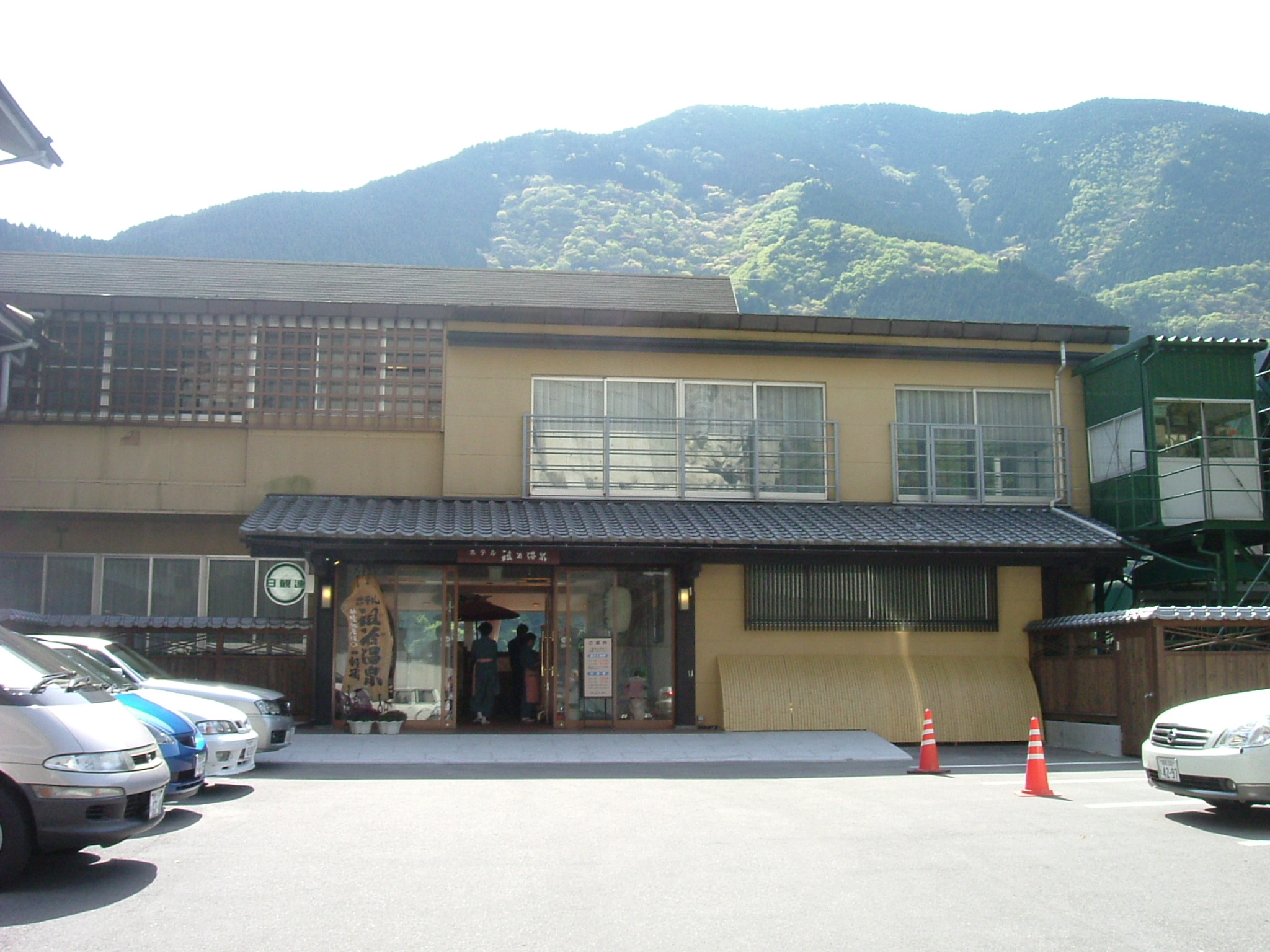 Iya-onsen-spa.